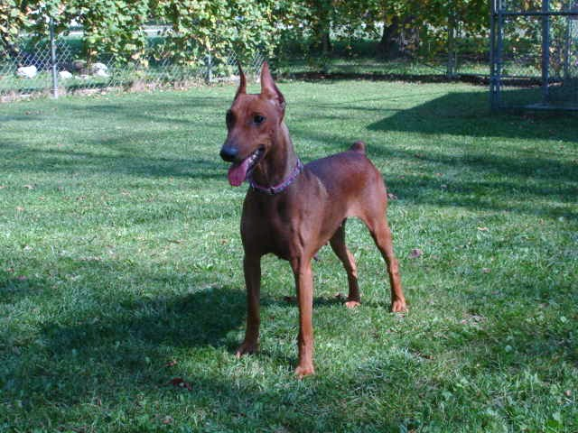 Ideal Red German Pinschers. See more at Chosen At Tara.